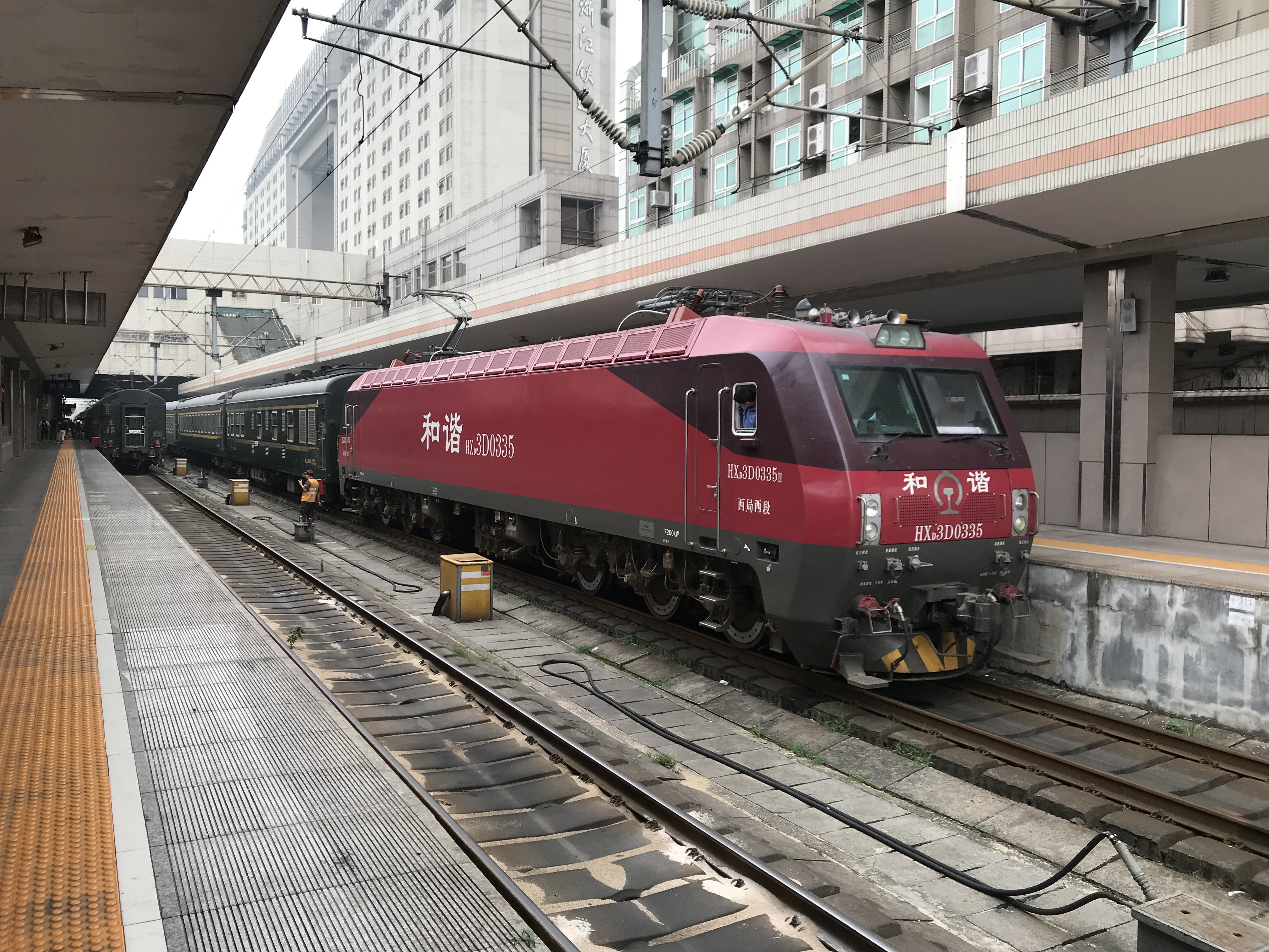 Xi'an-based HXD3D became the most unique loco in Hangzhou after the suspension of Z9/T31 services.